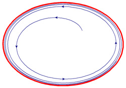 Illustration of Poincaré–Bendixson theorem (2)